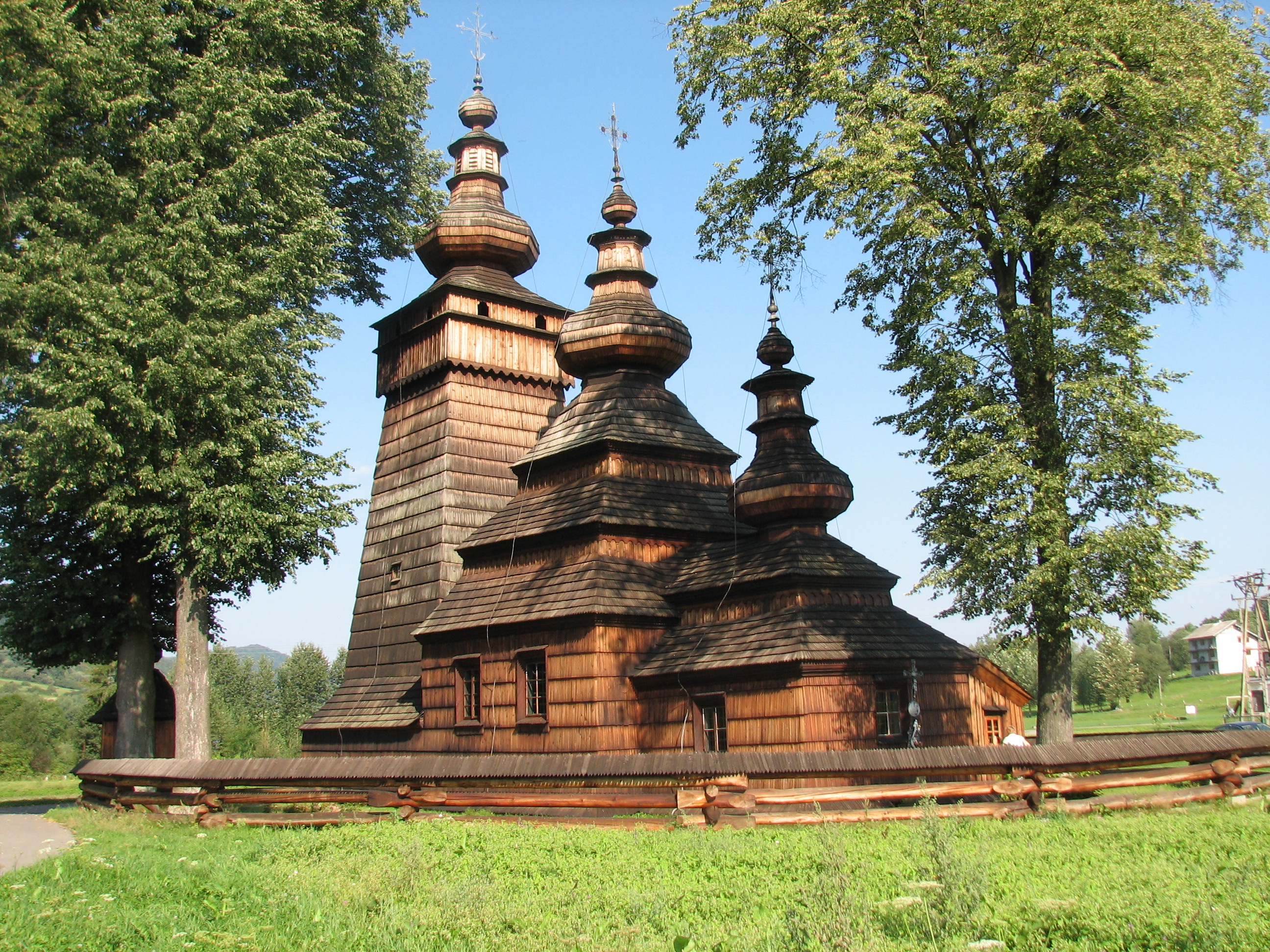 St Paraskeva Greek Catholic church in Kwiatoń, Poland. Example of Lemko architecture.